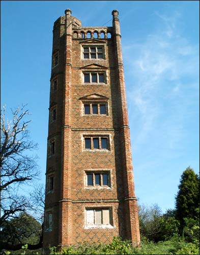 Freston Tower, a six-story red brick folly south of Ipswich, Suffolk in the village of Freston.